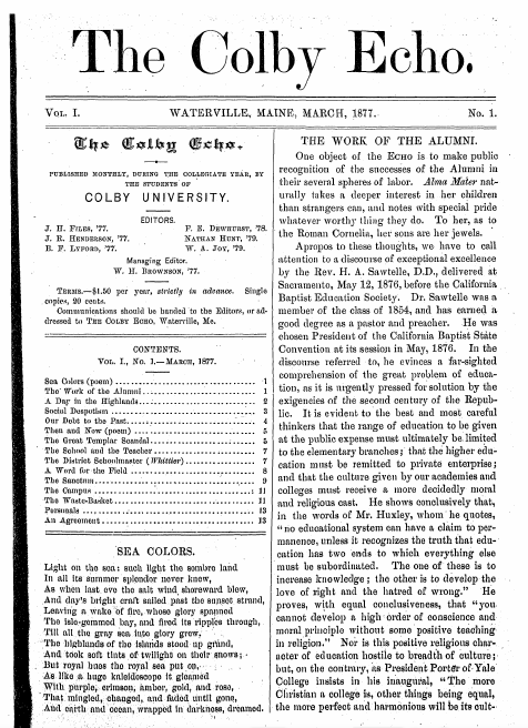 Photo of the first volume, first issue of the Colby University Echo newspaper.